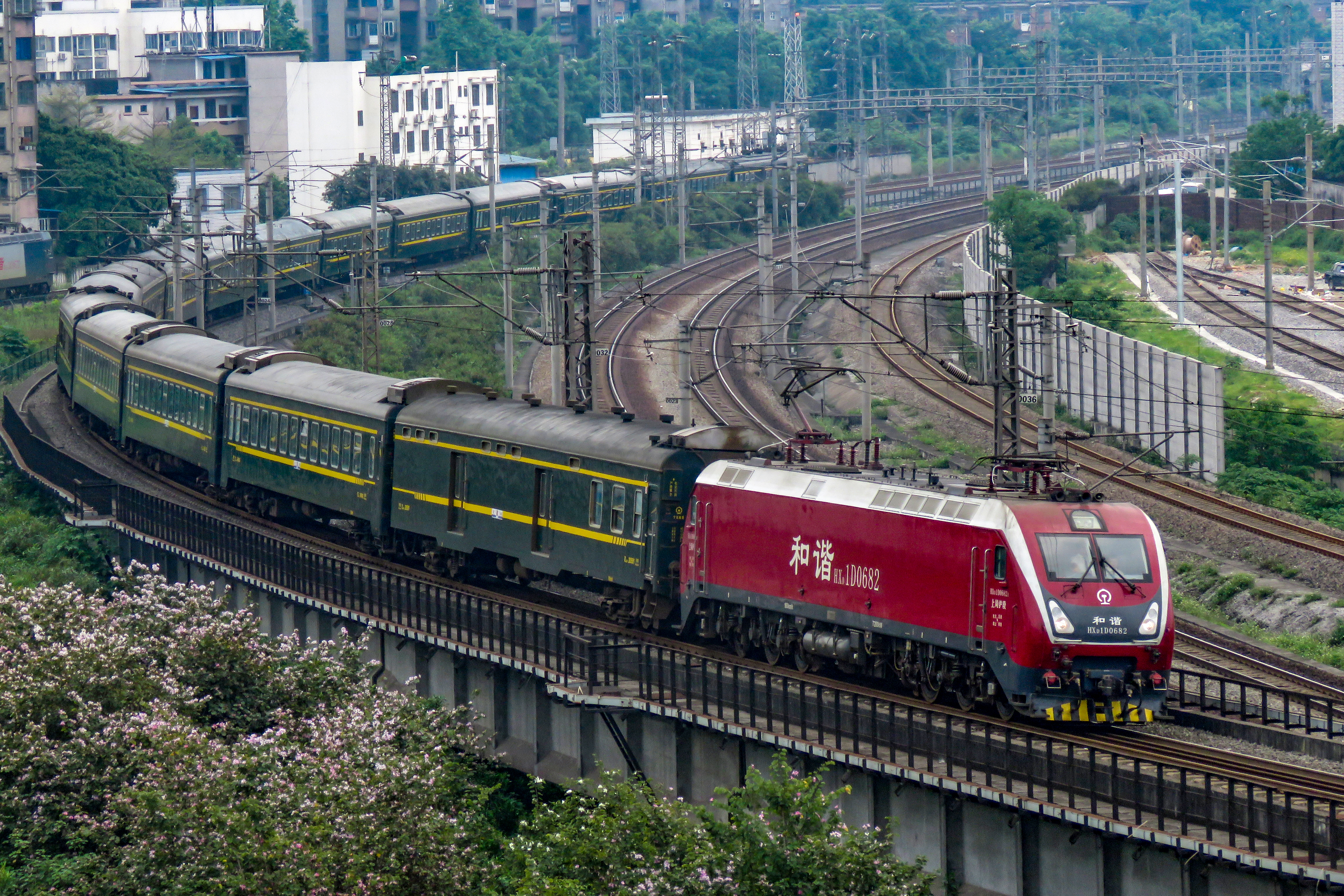 T78 from Nanning to Shanghai South. No deluxe sleepers for now.